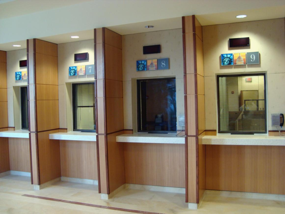 Consular section will assist US citizens and issue visas for travel to the United States. (US Embassy in Skopje, Macedonia)